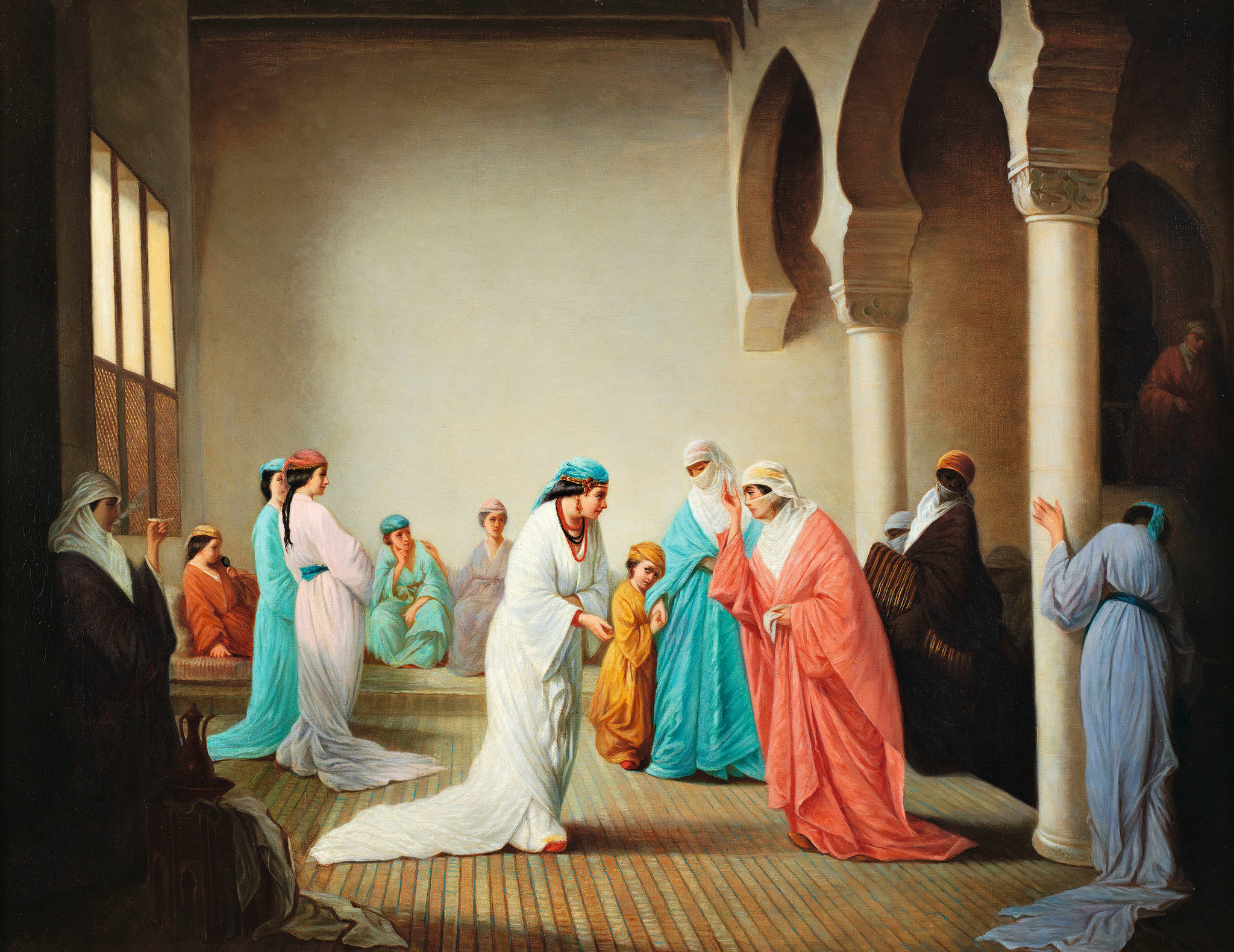 Oil painting by Henriette Browne, 1860, depicting the harem interior. Exhibited in Paris 1861.